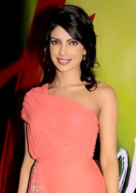 Chopra promoting 7 Khoon Maaf (2011).